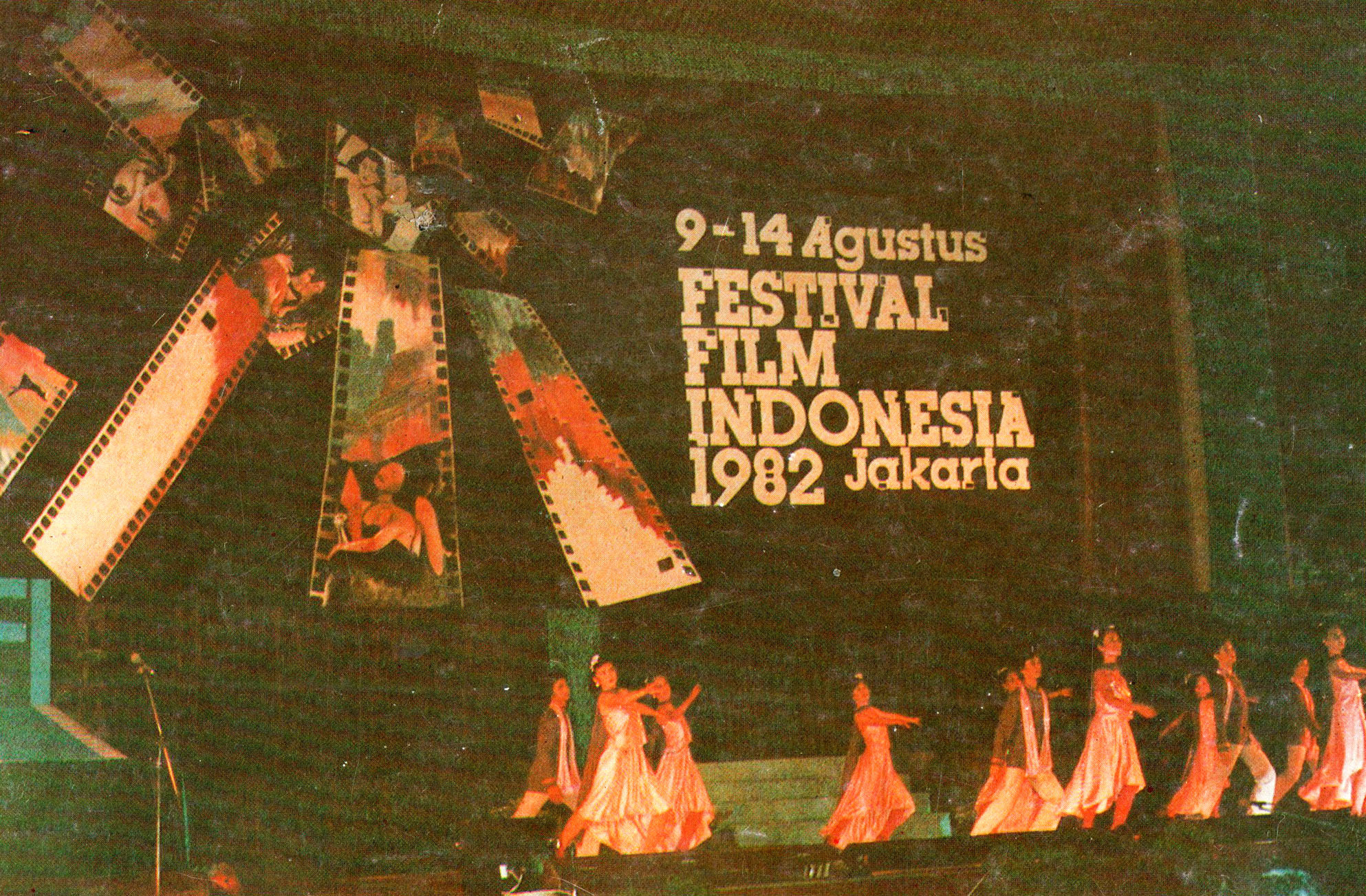 Dance performance at the 1982 Indonesian Film Festival in Jakarta